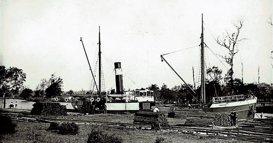 SS 'Cooloon' (1904 -1917) loading sleepers at the sleeper wharf, six chains from the mill wharf on the Lansdowne River, Langley Vale NSW.